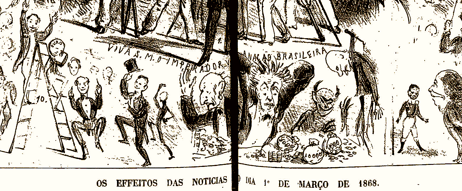 The financial impact of the news. Cartoon in Semana Illustrada. The Brazilian currency soars and gold is depressed. On the right a speculator has hanged himself.